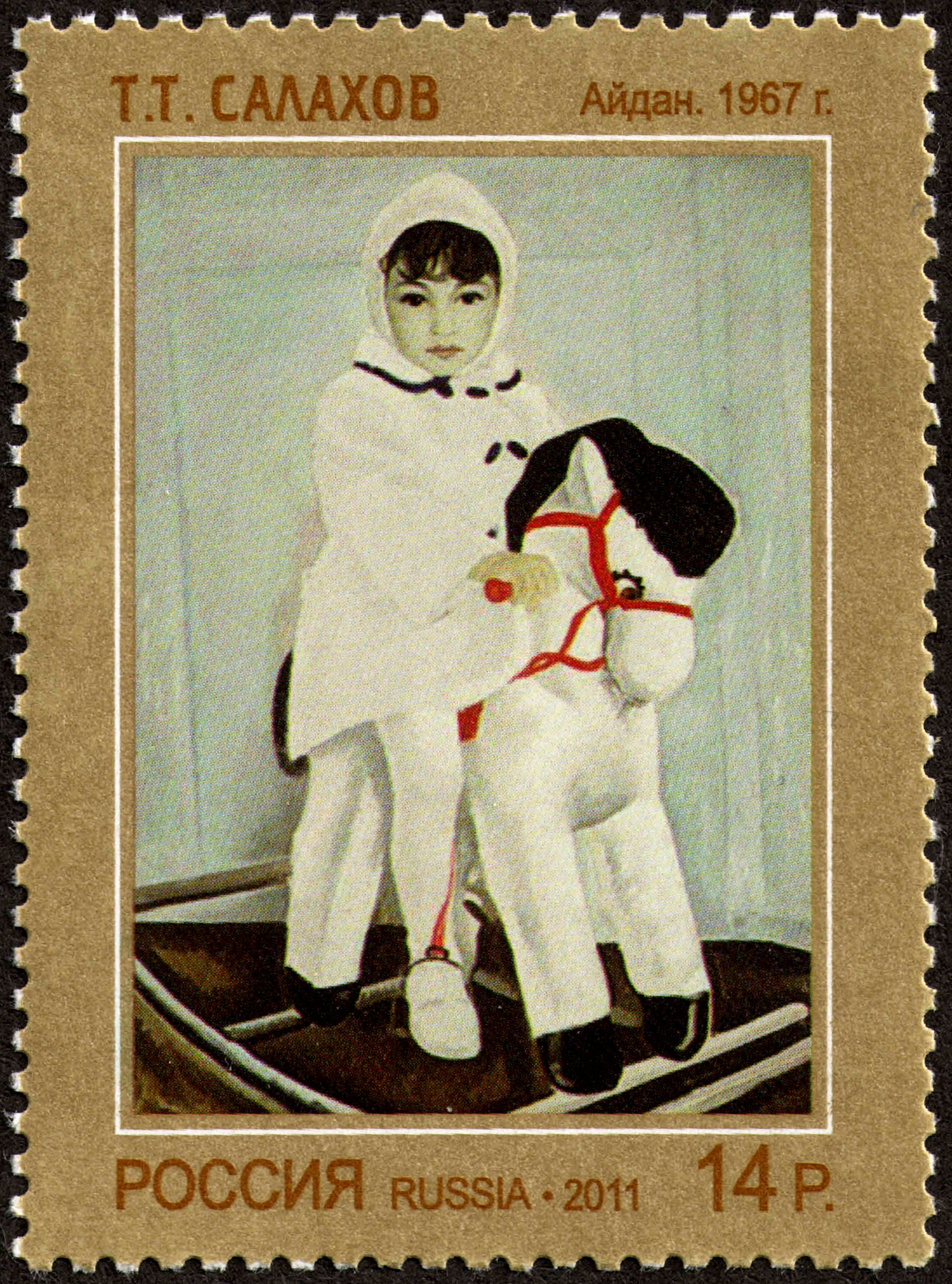 The contemporary art of Russia.Aidan by Tahir Salahov. 1967. Oil on canvas. 110×80 cm. State Tretyakov Gallery.The portrait of Tair Salakhov's daughter Aidan Salakhova. Now (2012) Aidan Salakhova is known as a Russian artist, gallerist and public person.The stamp of Russia, 14.00 Rubles, 12 September 2011, PTC Marka Catalogue No 1516, Michel No 1748. Coated paper, varnish coating, bronze paste. Offset printing. Perforation: comb 11:12½. Size of the stamp: 37×50 mm. Print run: 270,000.